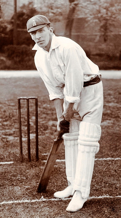 Nottinghamshire and England batsman George Gunn, circa 1910.